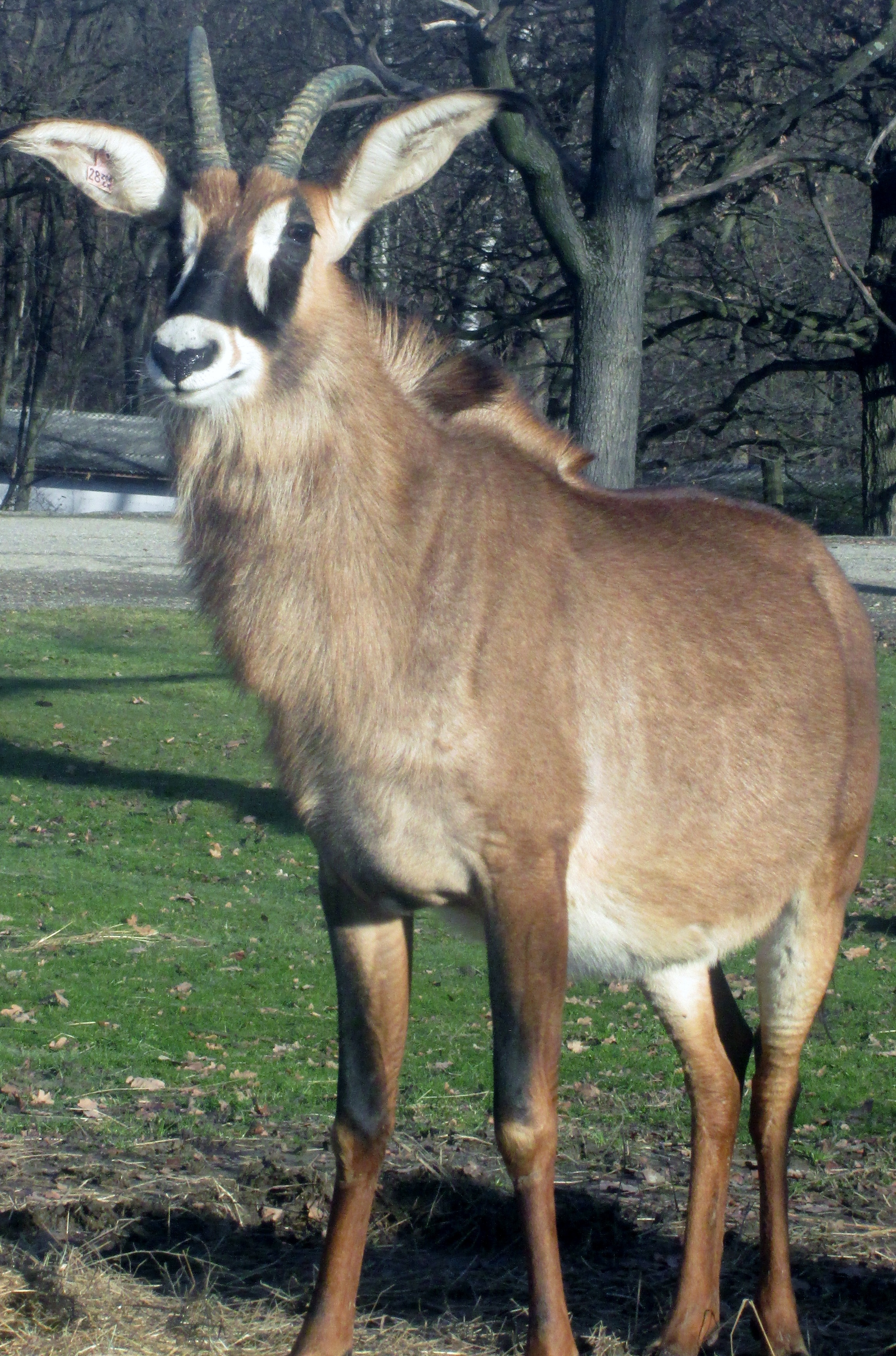 Roan antelope at Pombia Safari Park ITALY